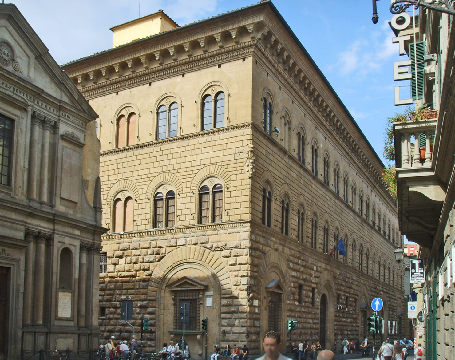 Facade and left flank of Palazzo Medici Riccardi in Florence, Italy.